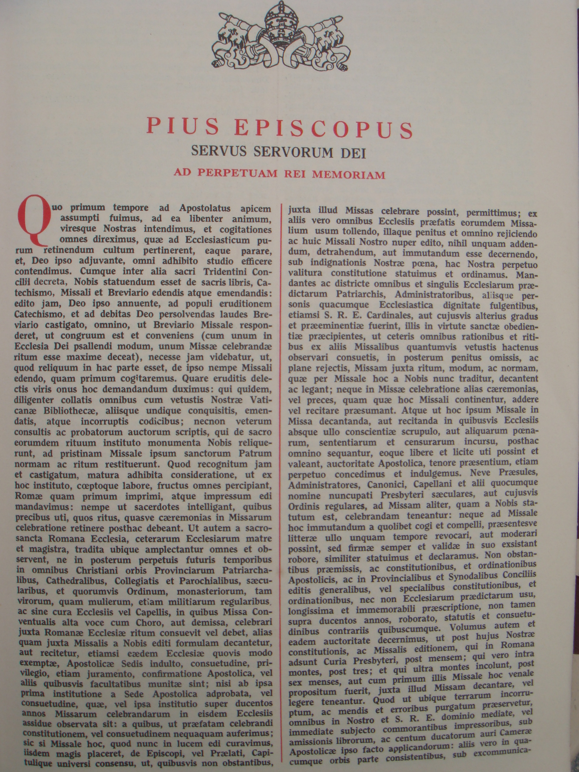 Text of the 1570 bull Quo primum tempore of Pope St. Pius V reproduced in a 1956 Roman Missal.